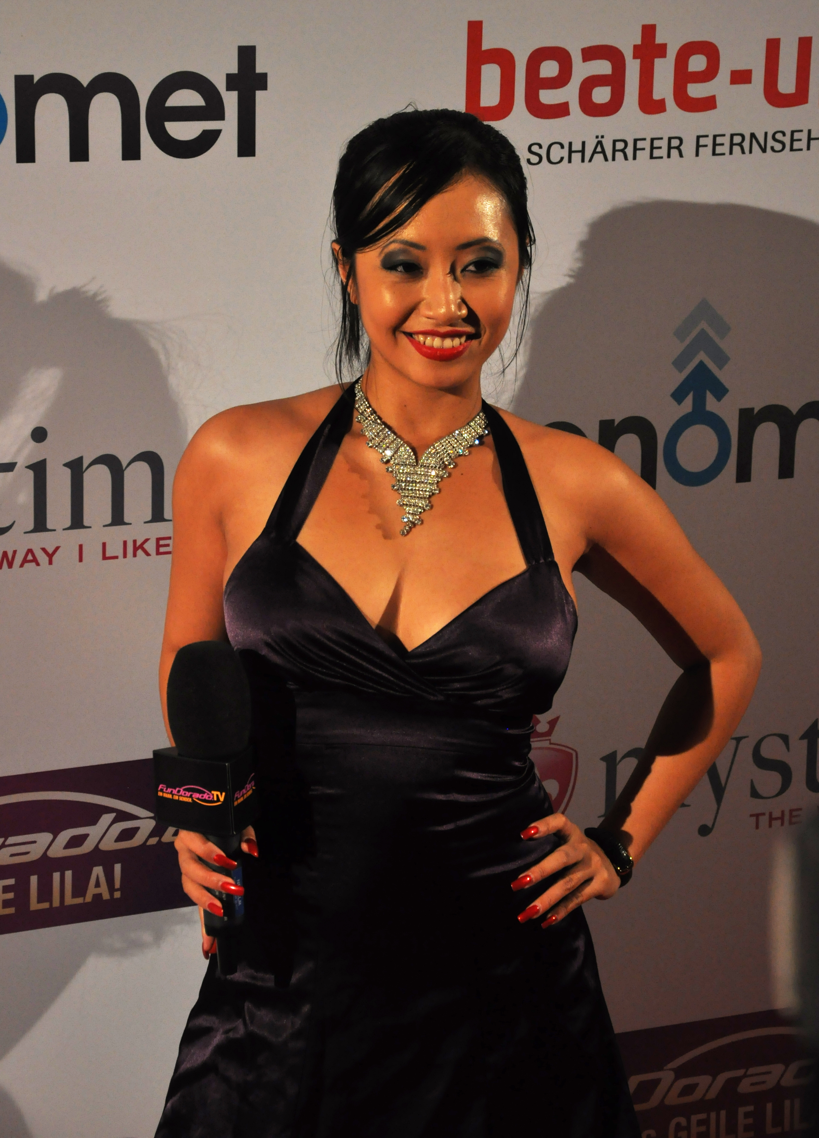 VENUS Award winner PussyKat at the ceremony of the Venus Awards 2014, Berlin